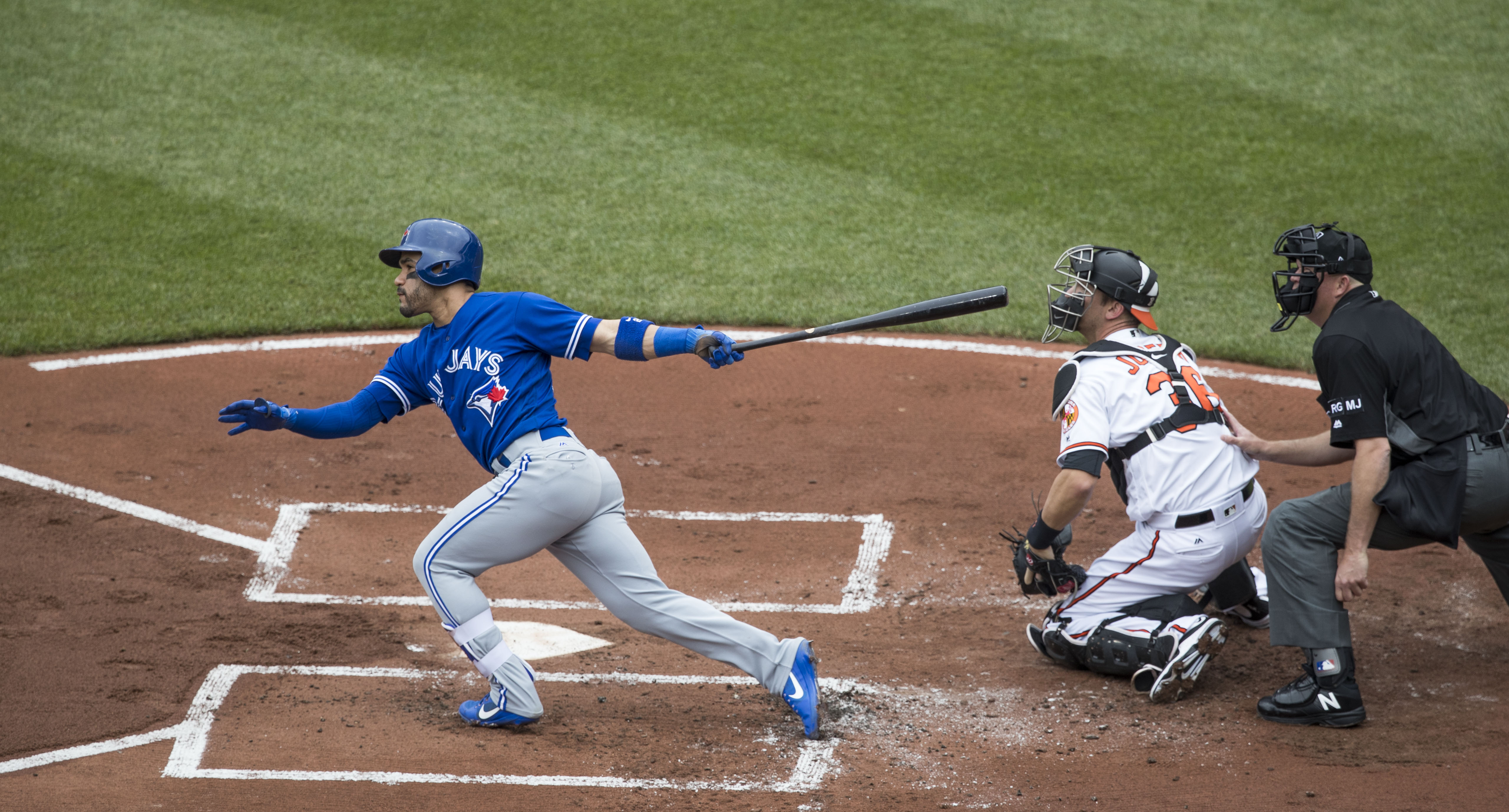 Devon Travis hits a three-run home run against the Baltimore Orioles on May 21, 2017